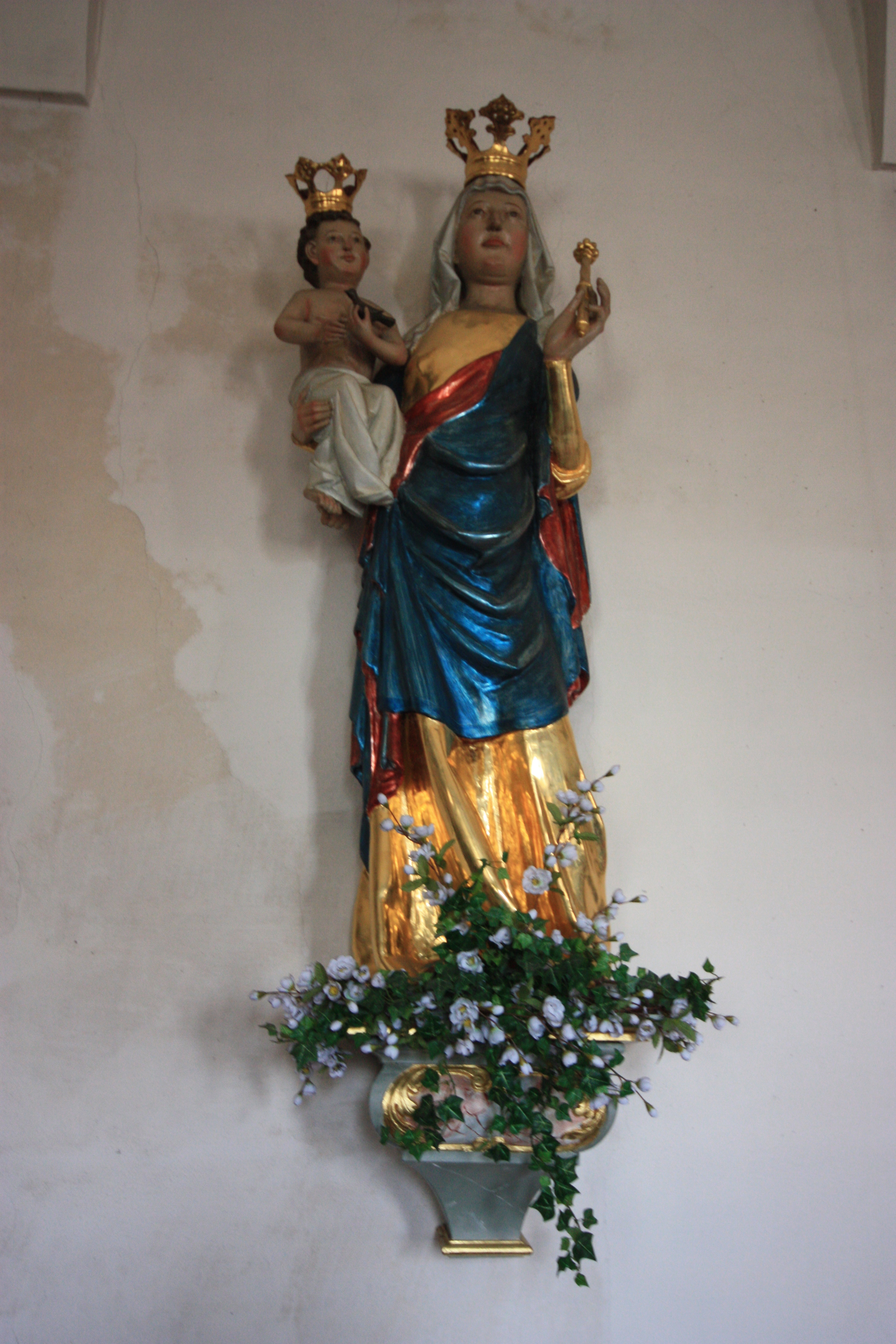 Madonna in the parish-church in Micheldorf, Carinthia